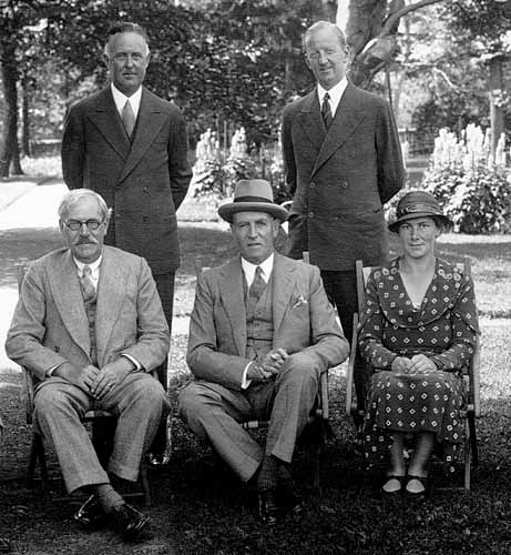 Taken on Government House, Newfoundland grounds in August 1934, Governor Sir David Anderson is entertaining Ramsay MacDonald, Prime Minister of Great Britain. Front row, left to right: Prime Minister Ramsay MacDonald, Governor Anderson, and Ishbel MacDonald, the daughter of the prime minister. Back row, left to right: Captain H.D. Robinson, R.N., private secretary to Governor Anderson, and Lieutenant-Commander J.A. Dicken, R.N.